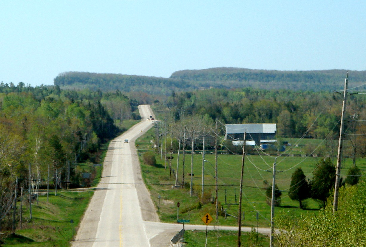 Rural countryside of Northeastern Manitoulin and the Islands, Ontario, Canada